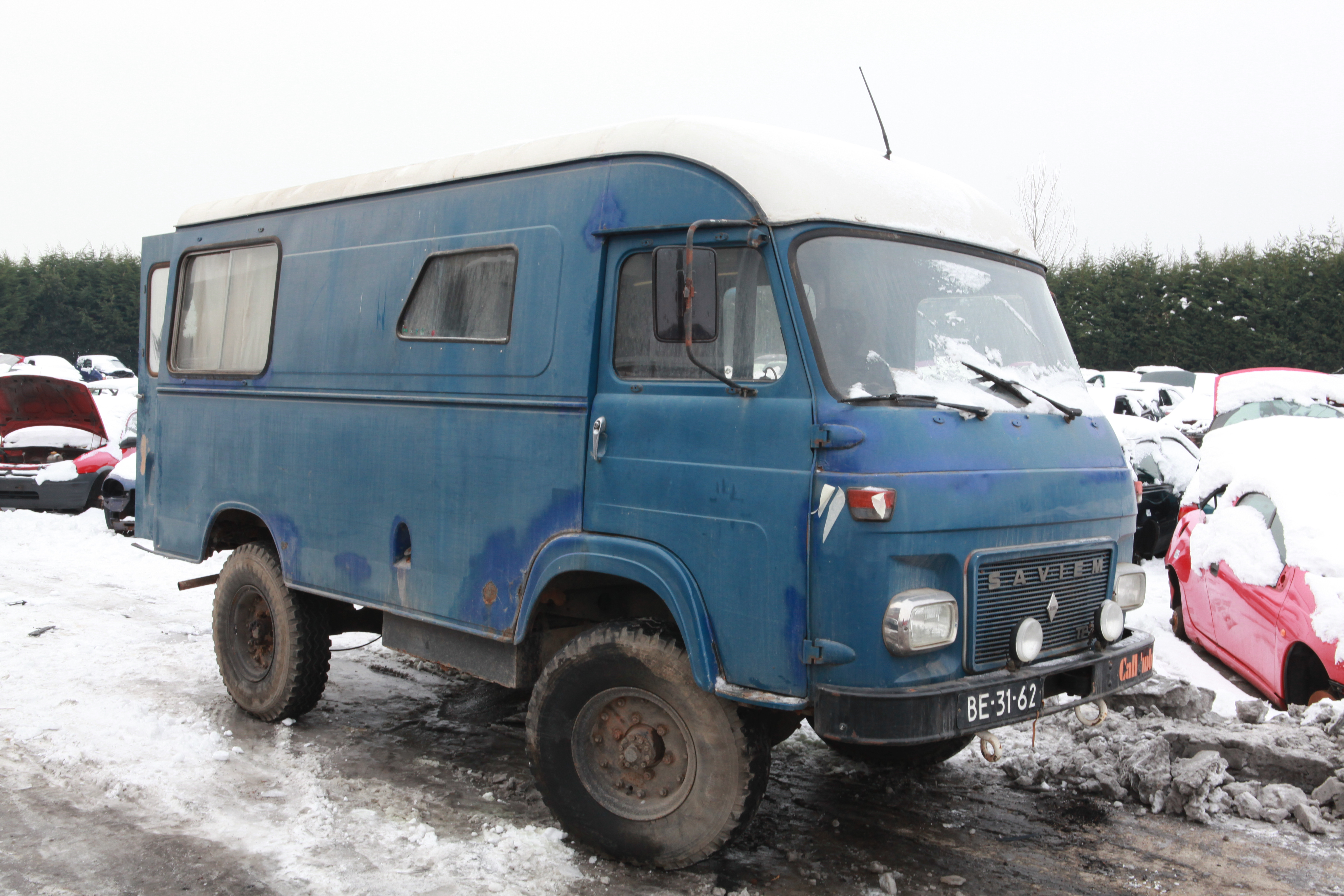 just arrived at the car scrapper photo taken at Autodemontage MJ Rutte & Zn BV Velserbroek